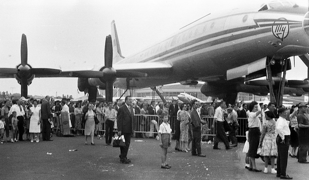 Tupolev Tu-114, exhibition in Paris